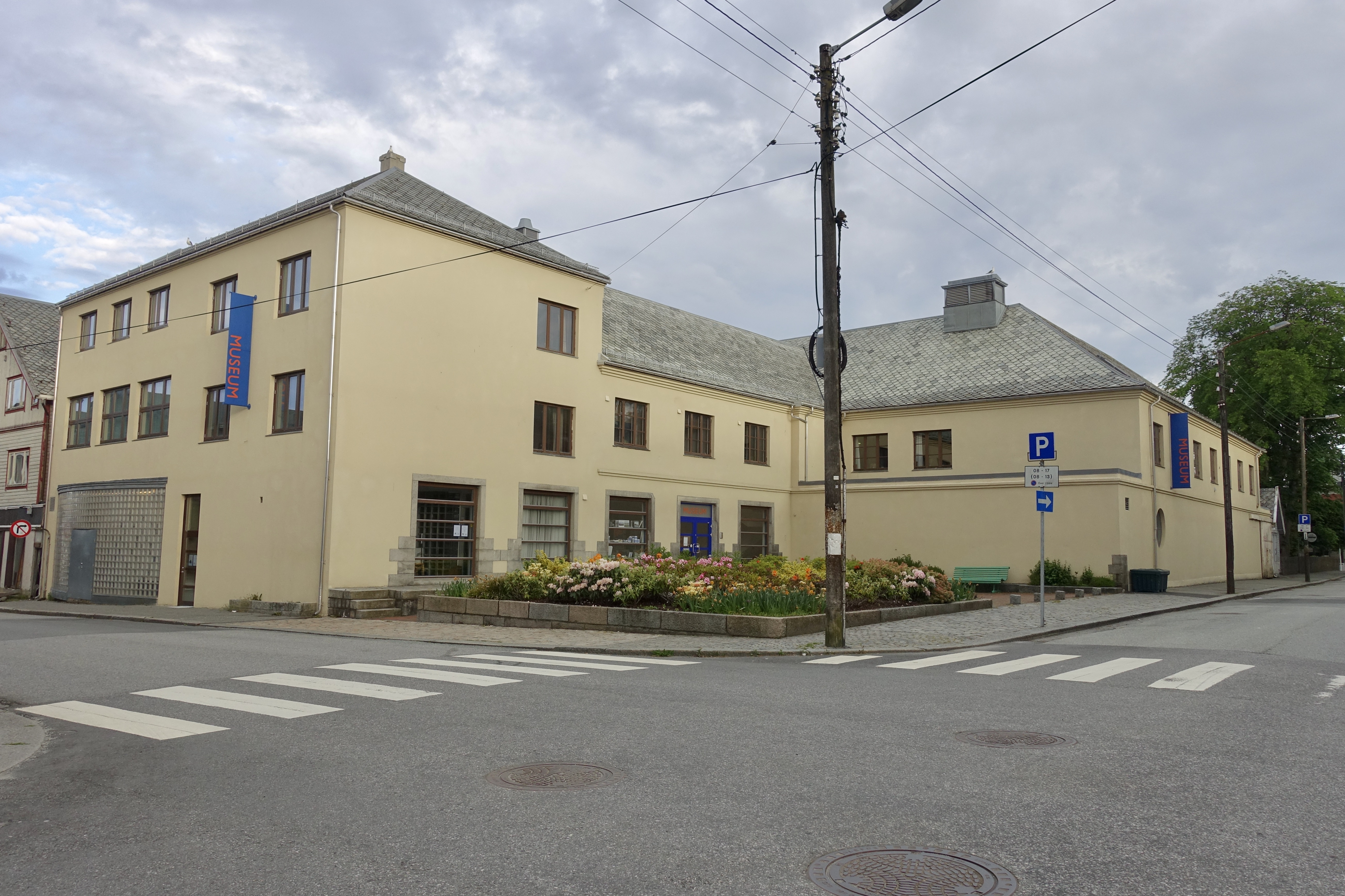 Karmsund folkemuseum, a museum in Haugesund focusing on the cultural history of the town of Haugesund and the northern part of Rogaland county in the 19th and 20th century. Photo taken on a morning in June 2020.